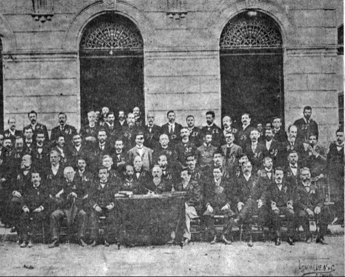 Presbyterian synod in Brazil, 1903